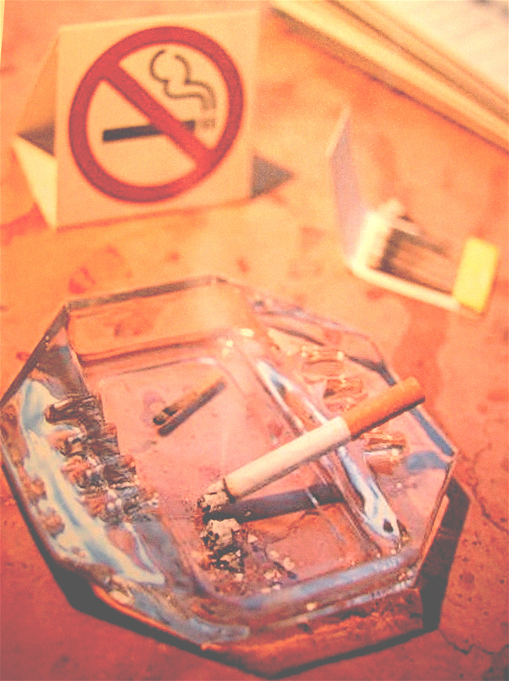 No smoking deviance